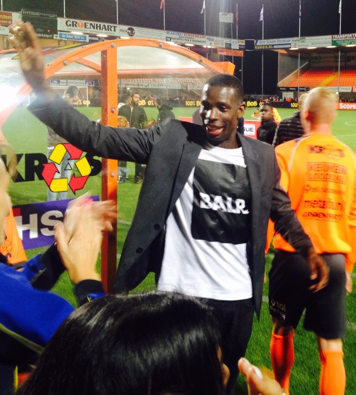 Gyliano van Velzen thanks the supporters of FC Volendam after winning the first period of the season on 25 September 2015